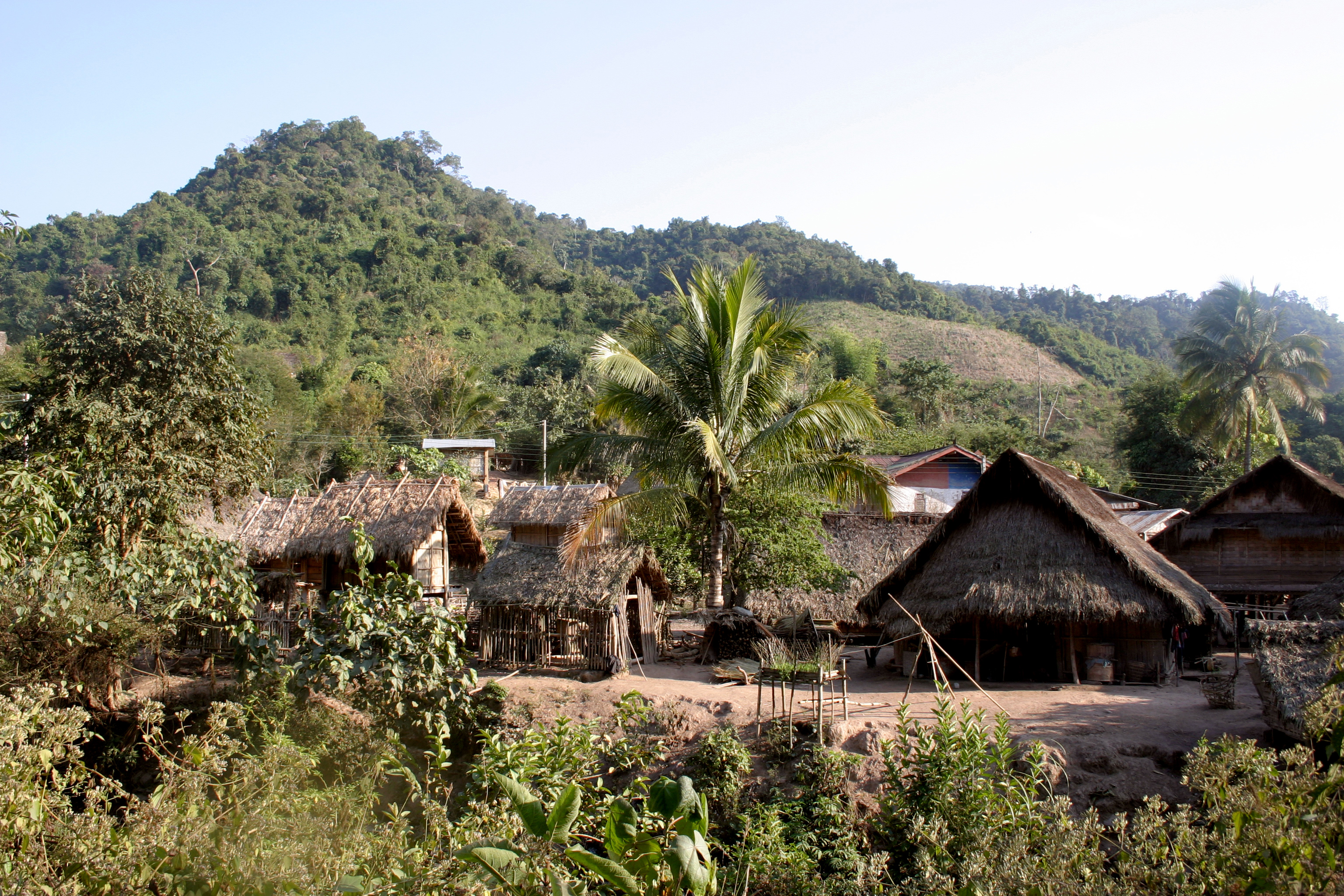 Lanten village in Luang Namtha district in Luang Namtha Province, Laos.